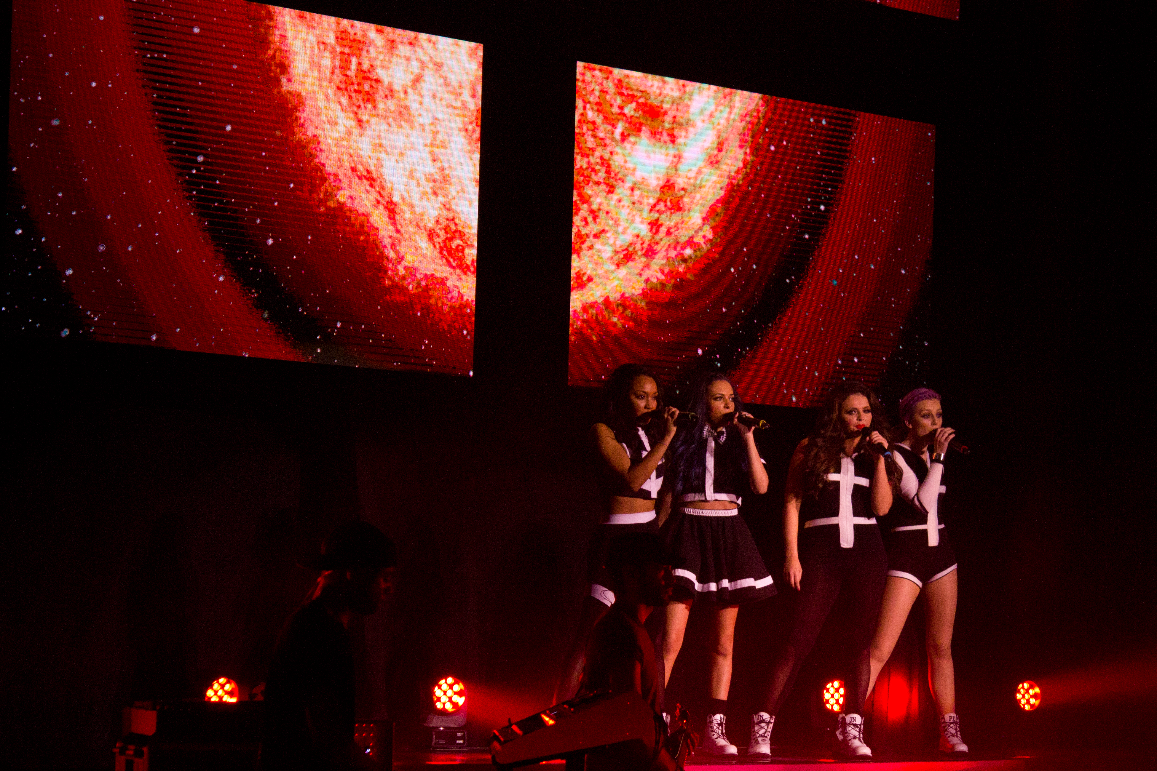 Little Mix on the Brit Awards 2013